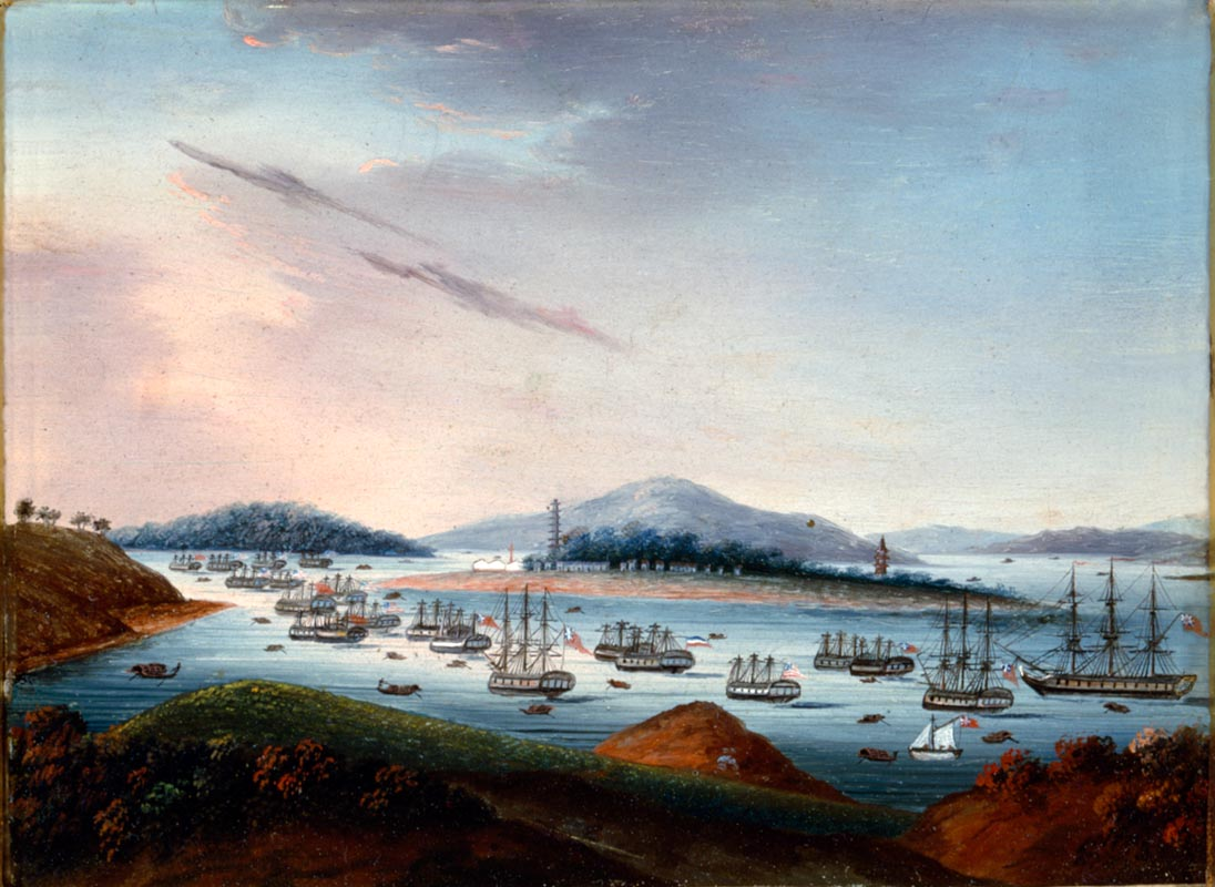 Oil on copper painting of Whampoa Anchorage, c. 1810.